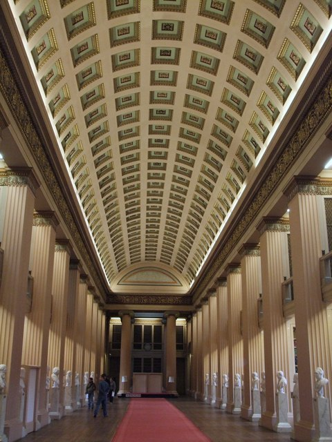 Playfair Library, Edinburgh University In 1817 the architect William Playfair (1789-1857) was commissioned to complete the unfinished university buildings.This,the library hall 190 feet long with a barrel-vaulted ceiling was his masterpiece. It served as a library from the 1820's until 1960 but is now used for functions and lectures. The busts in the niches lining the room are of past notable professors at the university.